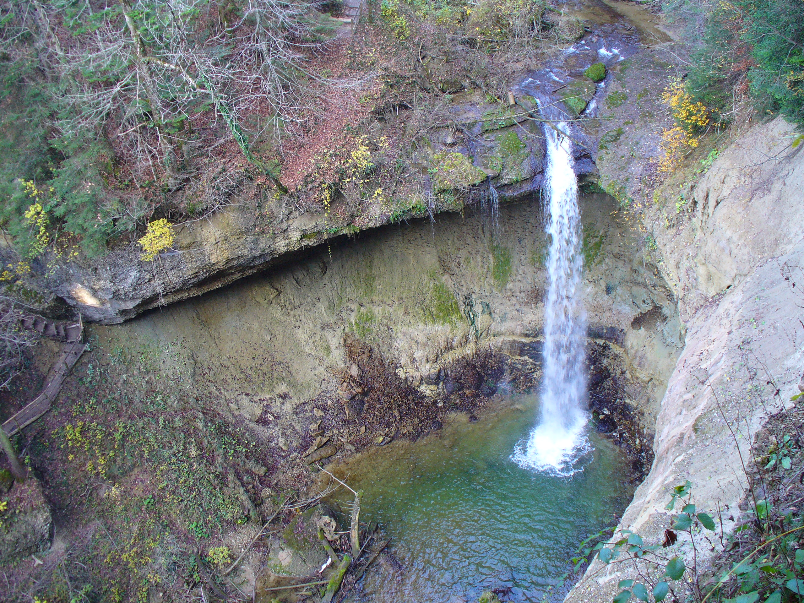 Lower Waterfall in Scheidegg, Germany